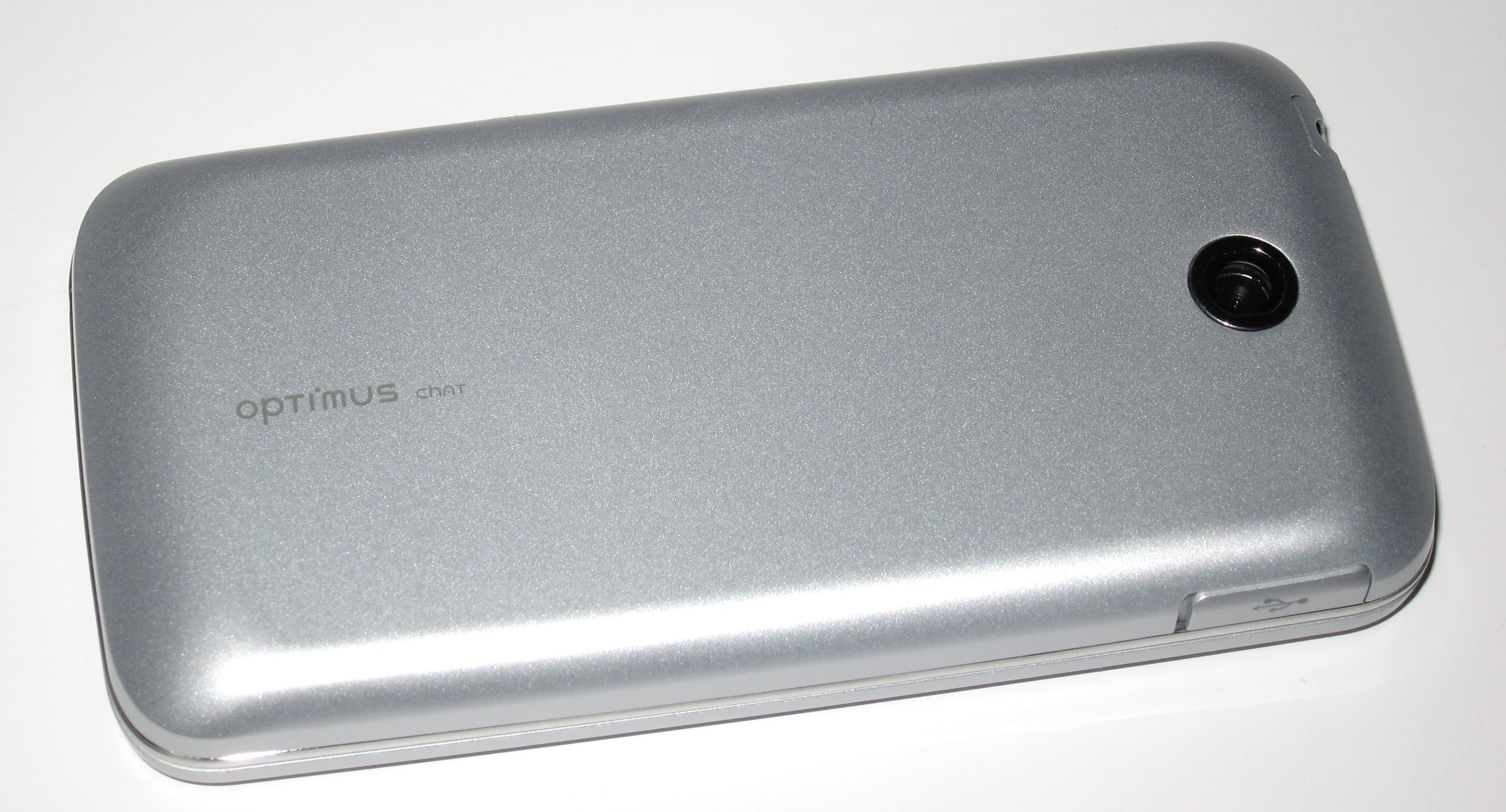 Docomo Smartphone Optimus chat L-04C